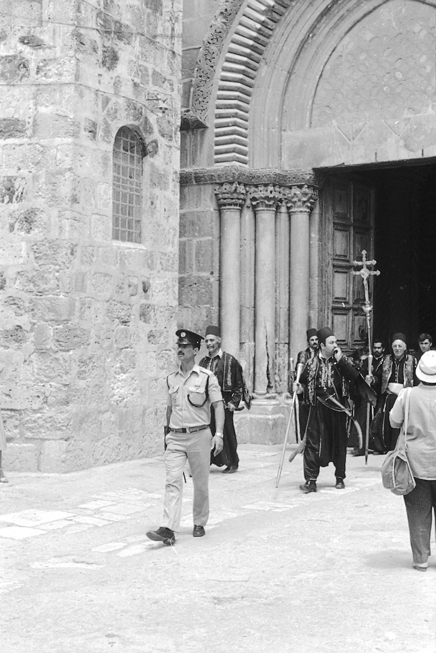 Procession leaves the Church of the Holy Sepulchre headed by Kawas (Ottoman guards).